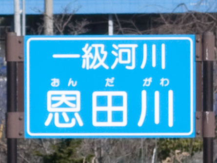 Sign of Onda River in Yokohama, Japan.